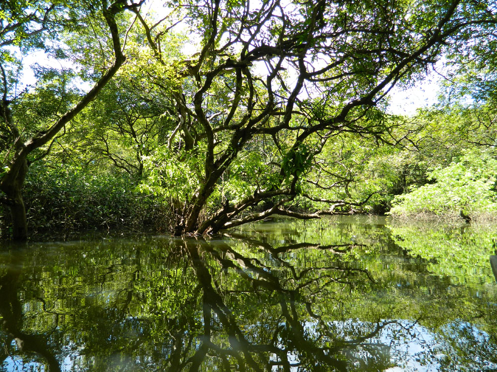 This is the picture taken at Ratargul, Sylhet, Bangladesh.